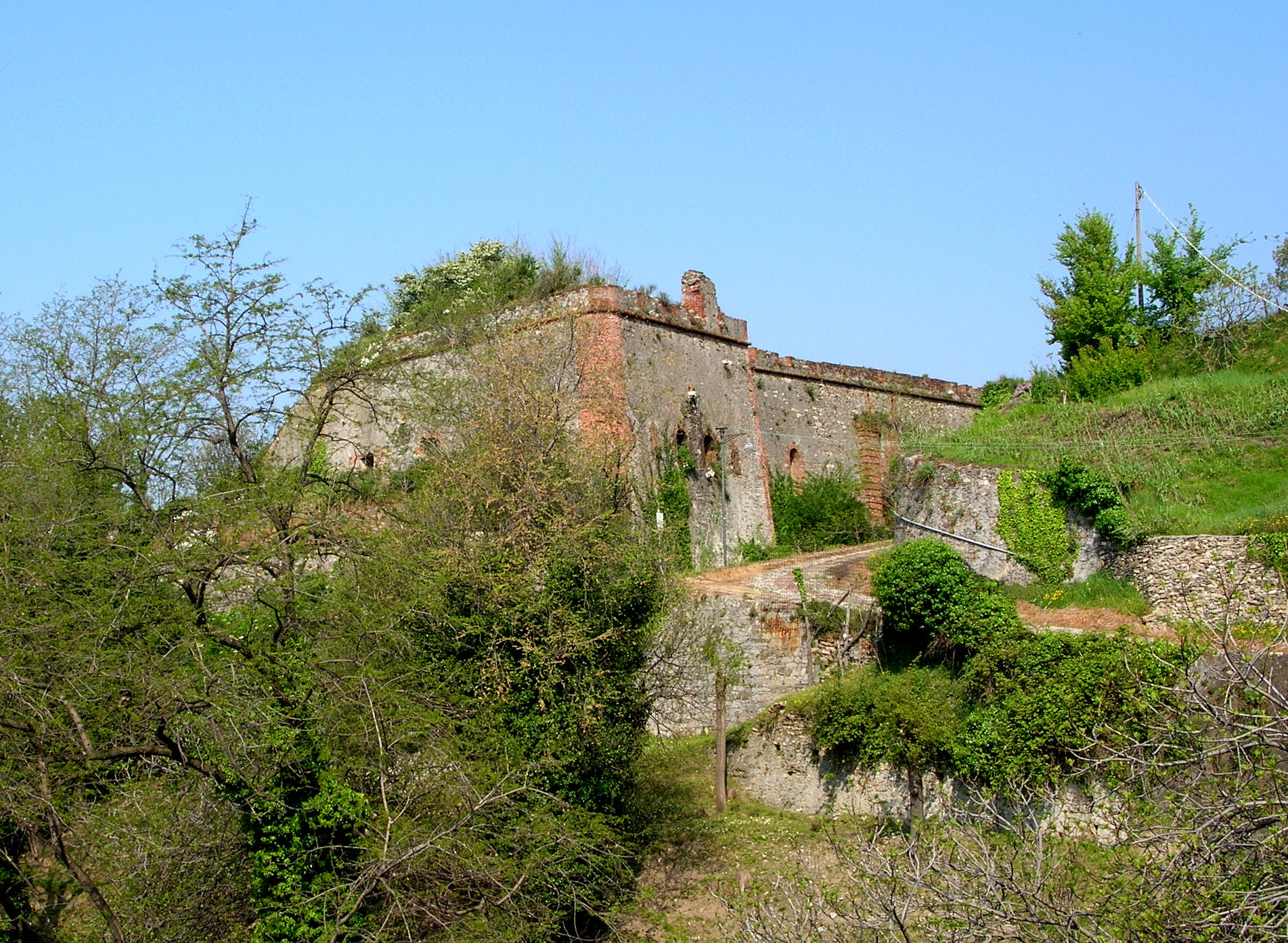 Genoa (Sampierdarena), Fort Crocetta